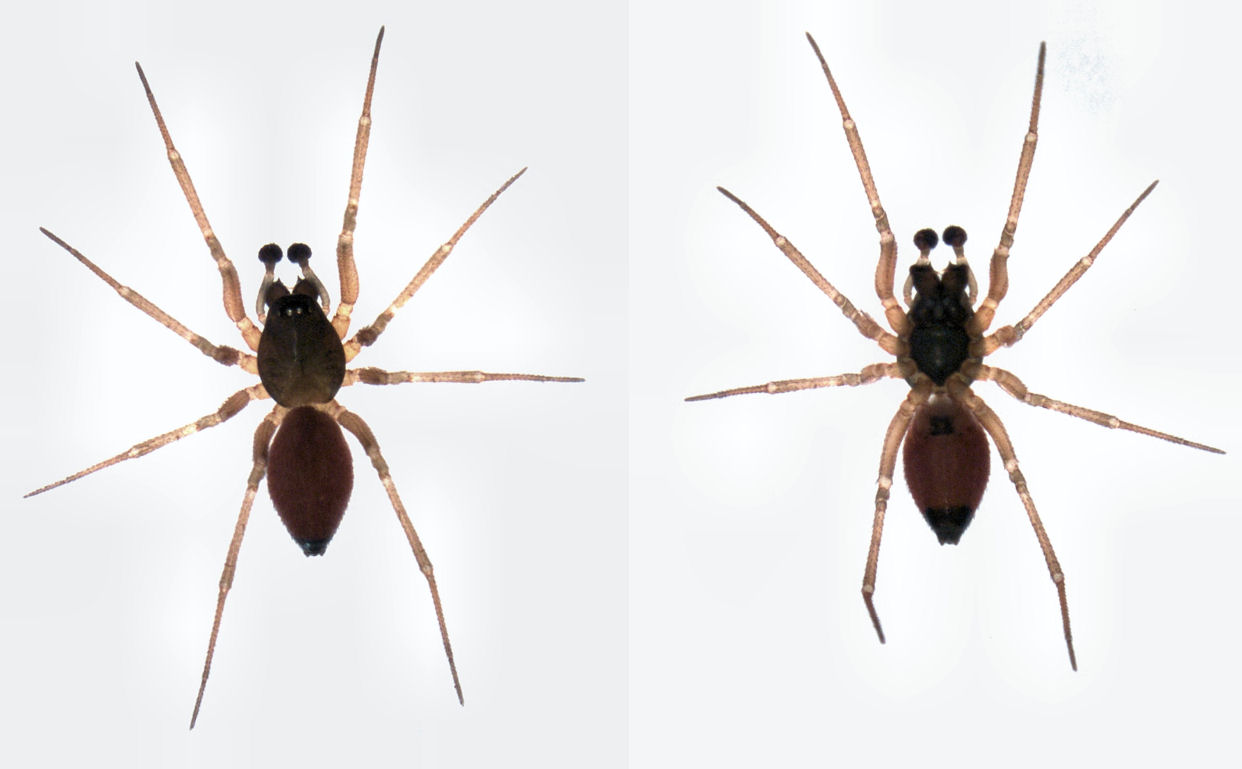 adult male Ostearius melanopygius (after 1 day in ethanol)